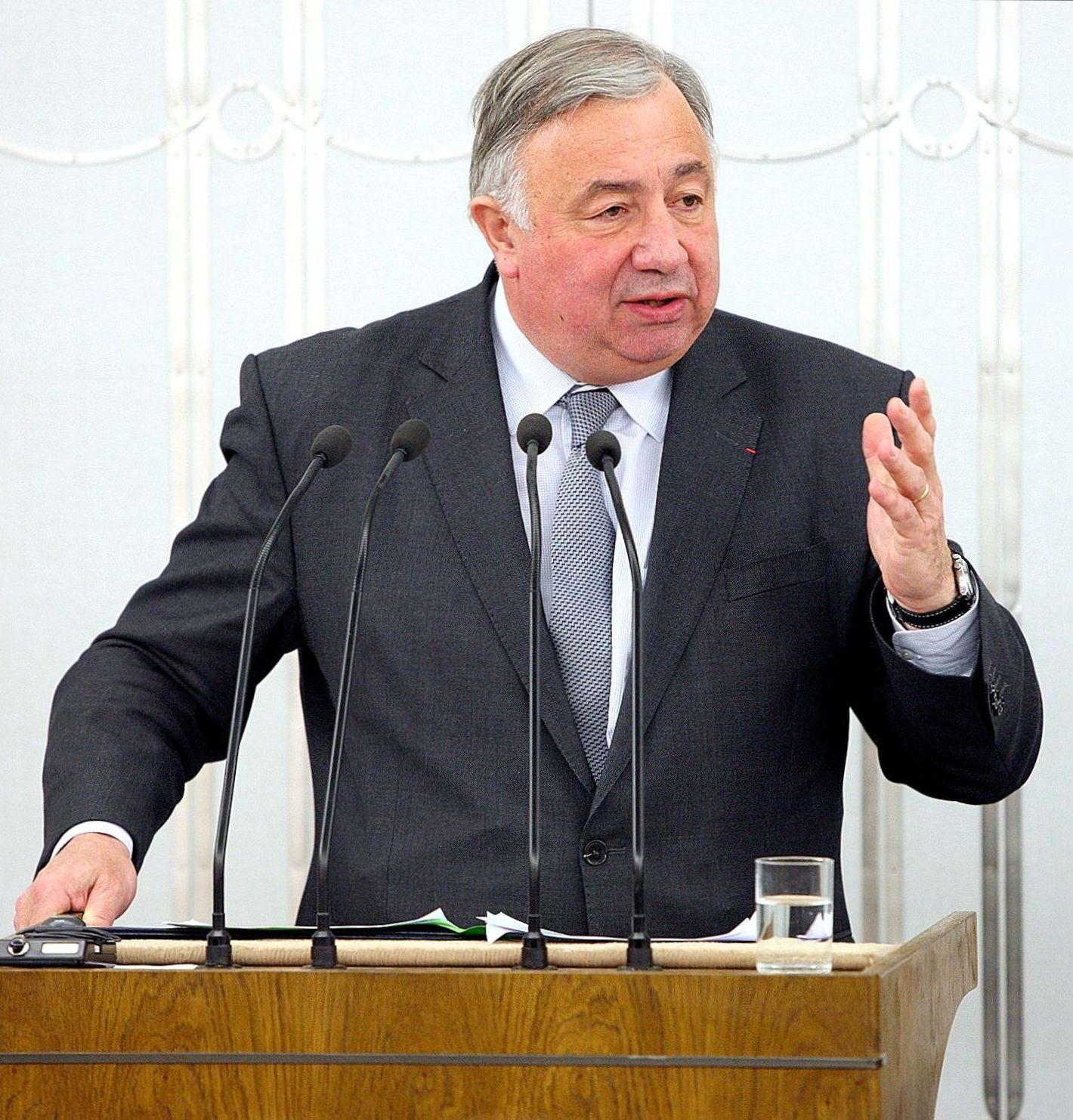 President of the Senate of France Gérard Larcher in the Polish Senate